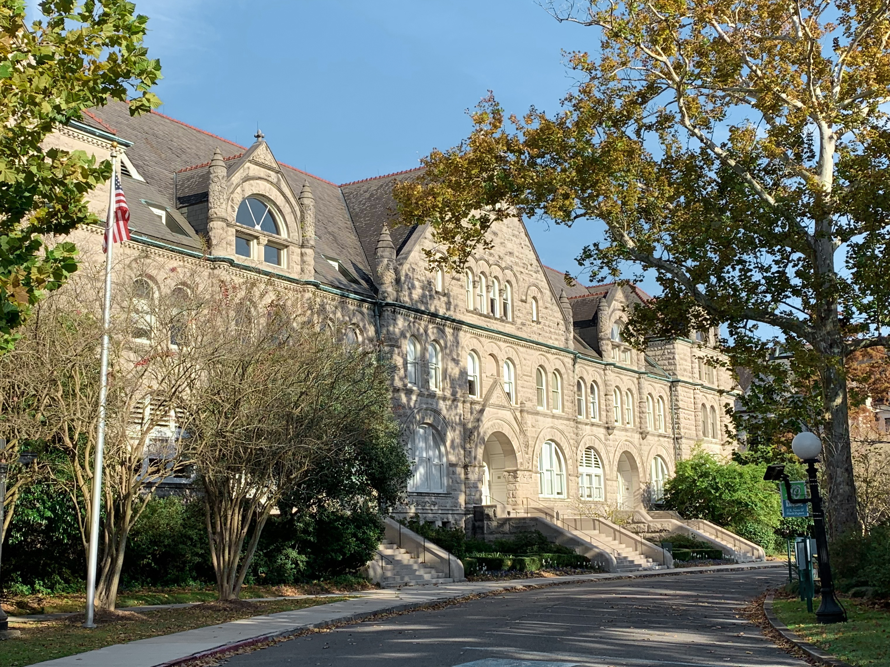 Gibson Hall in 2019